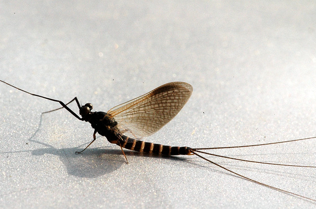 Picture taken in Commanster, Belgian High Ardennes . Species: Leptophlebia marginata